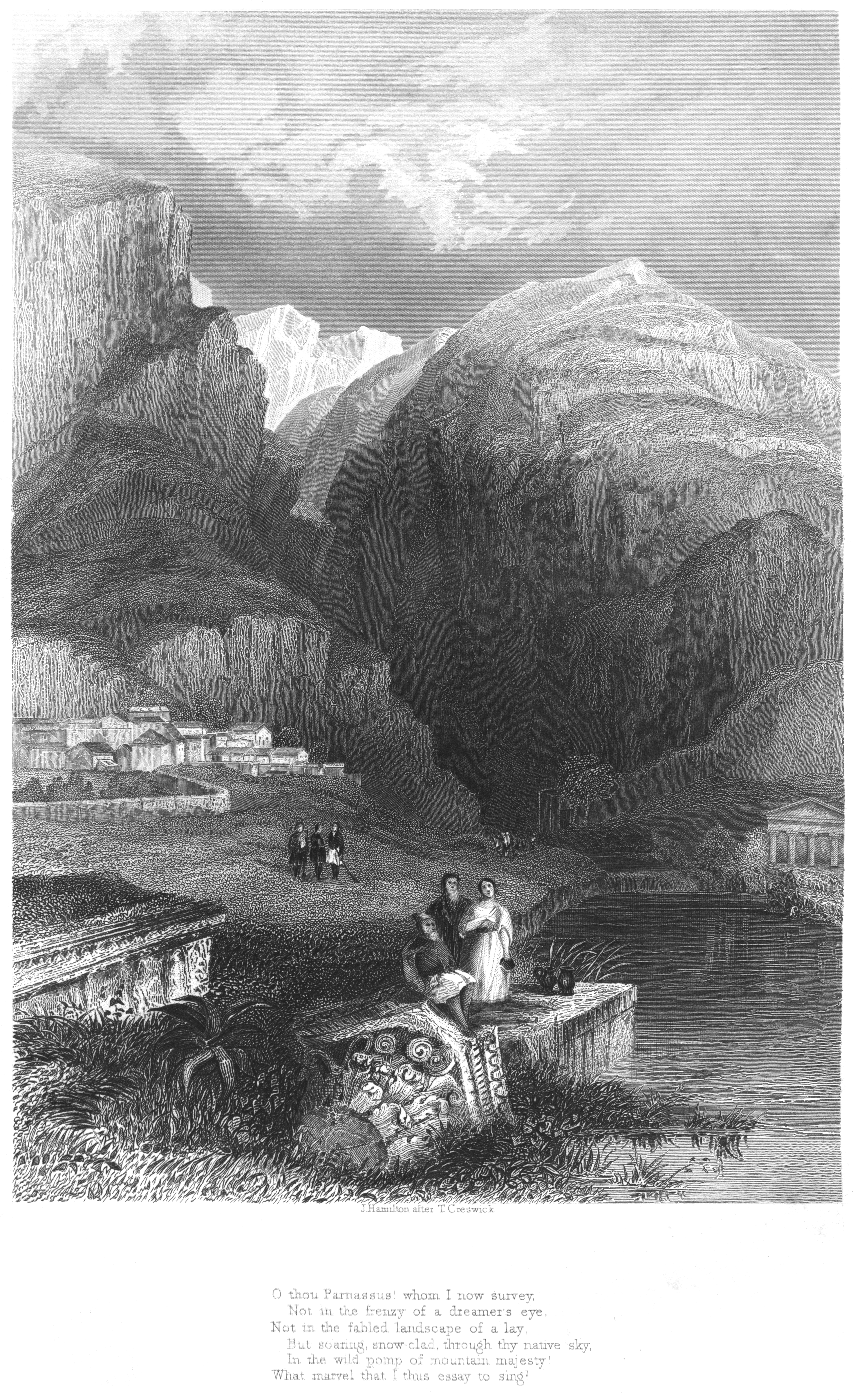 Frontispiece to Poetical Quotations from Chaucer to Tennyson by Samuel Austin Allibone, Copyright 1873 Parnassus by J. Hamilton after T. Creswick